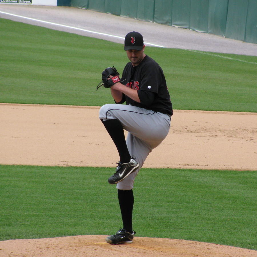 Indianapolis starting pitcher, Jason Davis.